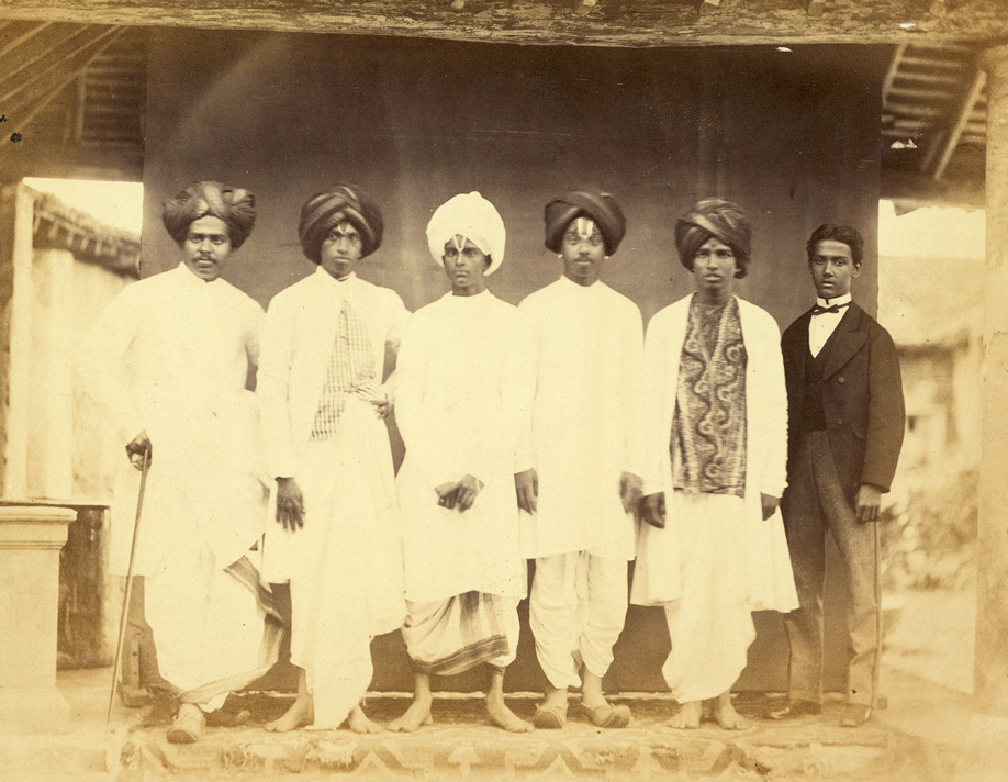 Six prize students from the University of Madras photographed by a photographer from the Madras School of Industrial Arts. Uploaded by Fowler&fowler«Talk» 12:10, 24 September 2011 (UTC)